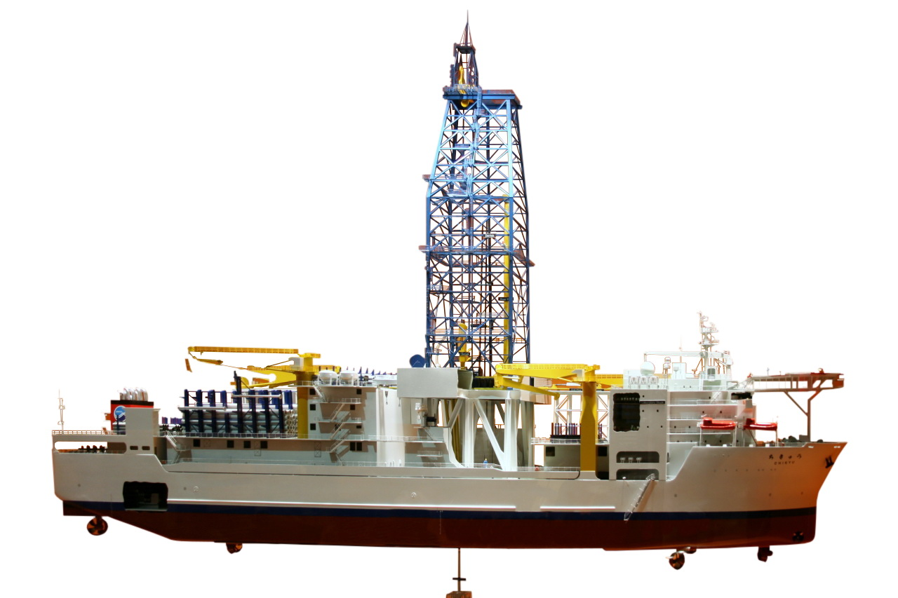 1:100 scale model of Chikyū - the world's first scientific drilling vessel capable of drilling more than 7,000 meters (23,000 ft) below the seafloor. Built to provide a riser-equipped platform to the integrated Ocean Drilling Program (IODP) - Sant Ocean Hall at the Smithsonian's National Museum of Natural History, USA